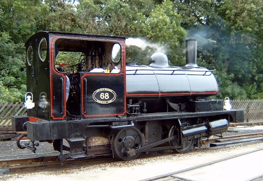 Pug 68 as featured in a Worth Valley Railway Gala event at Ingrow in 2004. For use in